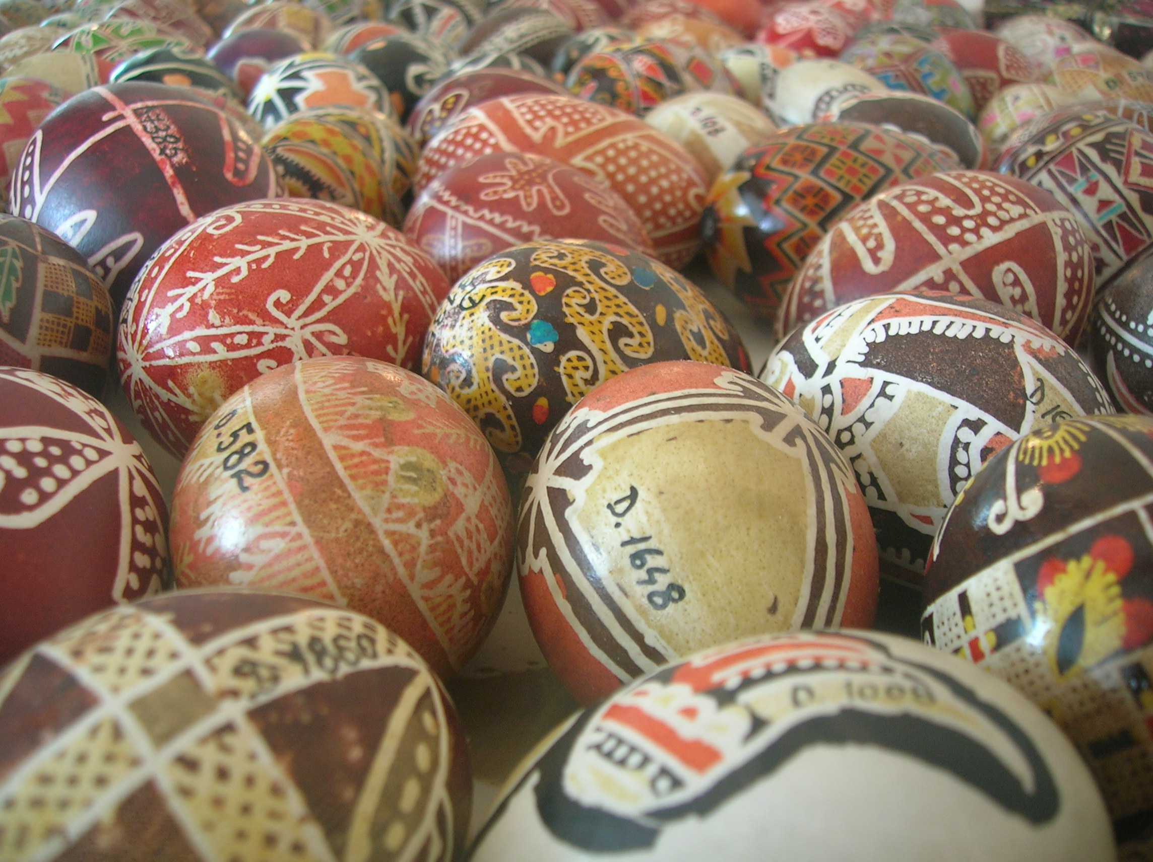 Bukovina eggs (Museum of the Romanian Peasant, Bucharest